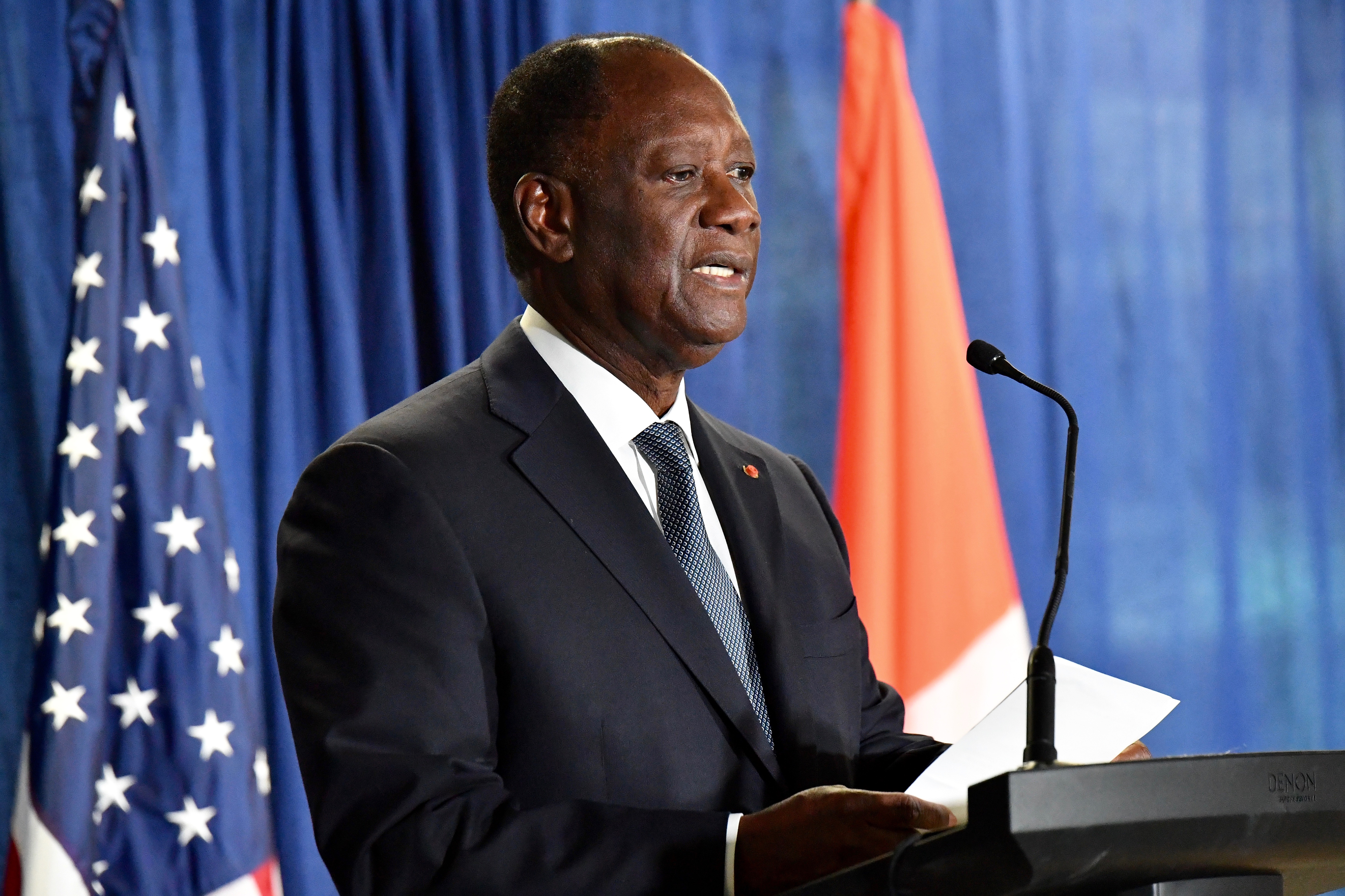 President of the Ivory Coast Alassane Ouattara delivers remarks before signing a new compact to spur economic growth and private investment in Cote D'ivoire with U.S. Millennium Challenge Corporation CEO Jonathan Nash at the U.S. Department of State in Washington, D.C. on November 7, 2017.